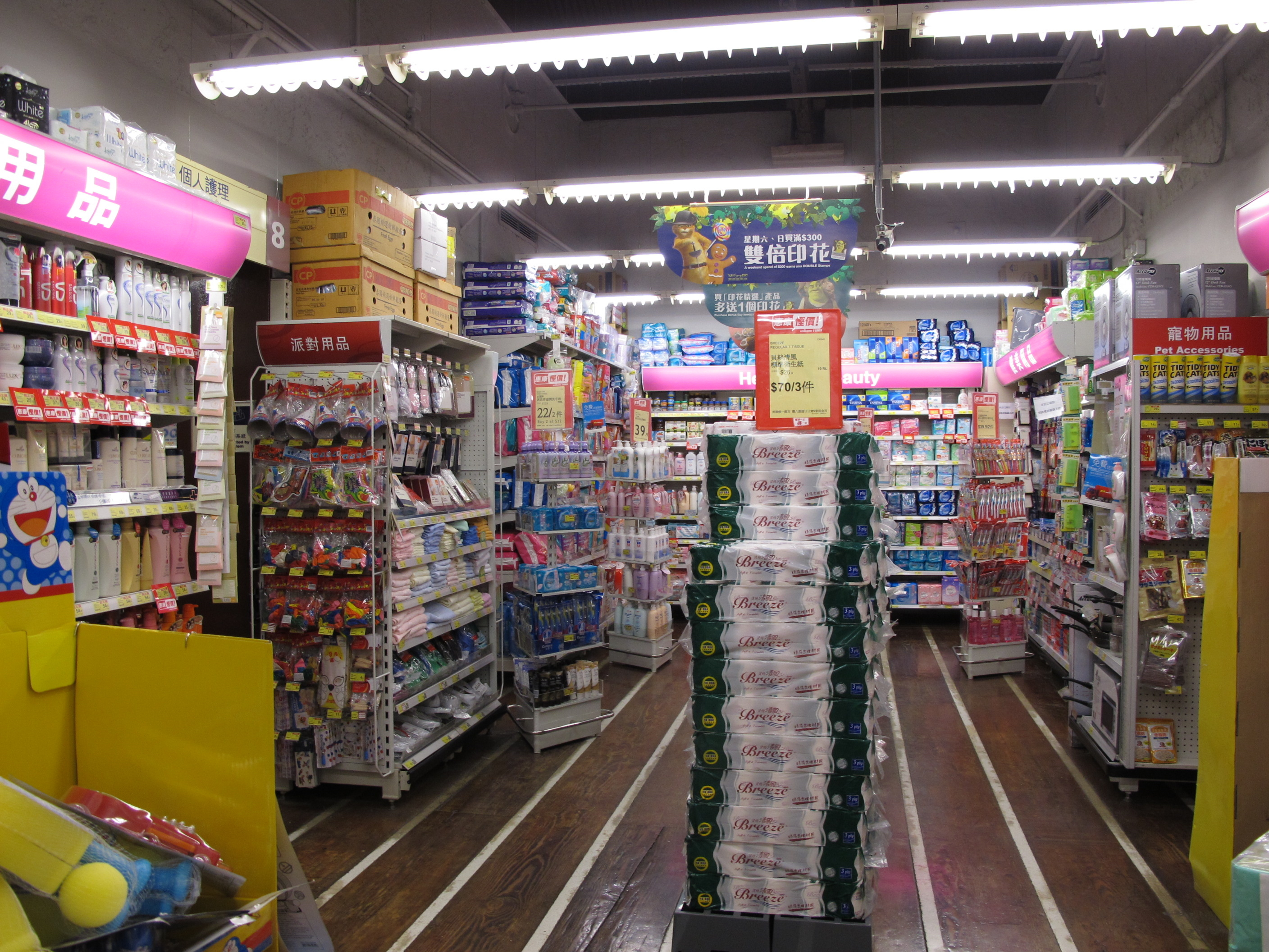 Old Stanley Police Station